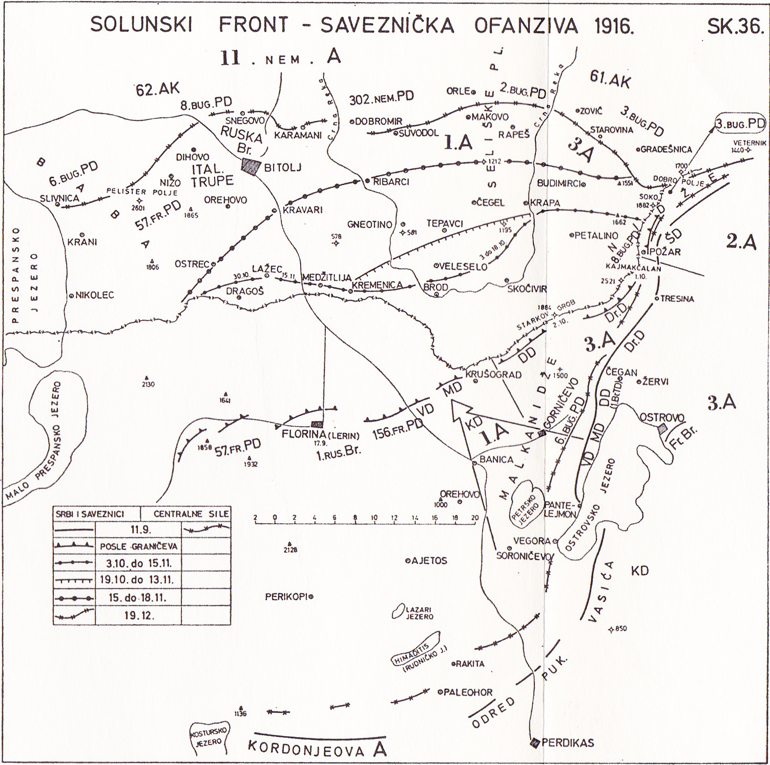 Solunski front Antante offensive in autumn 1916